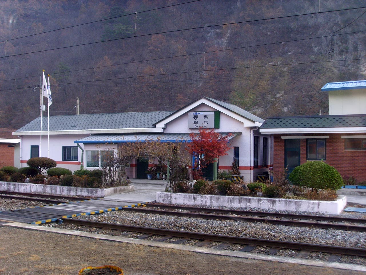 Dongjeom Line (Yeongdong Line, Gumunso-dong, Taebaek-si, Gangwon-do, South Korea